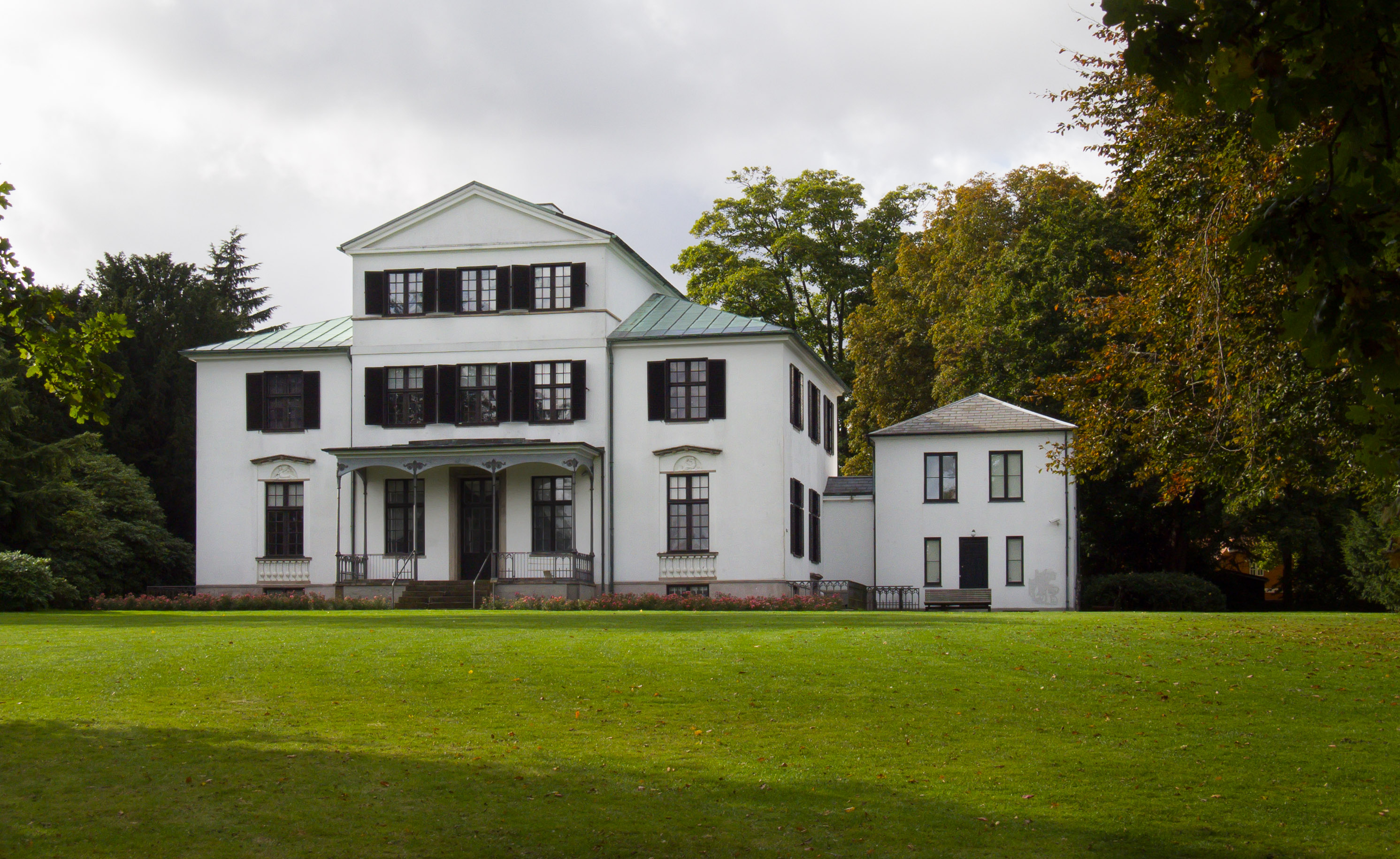 Øregaard Museum in Hellerup, Denmark